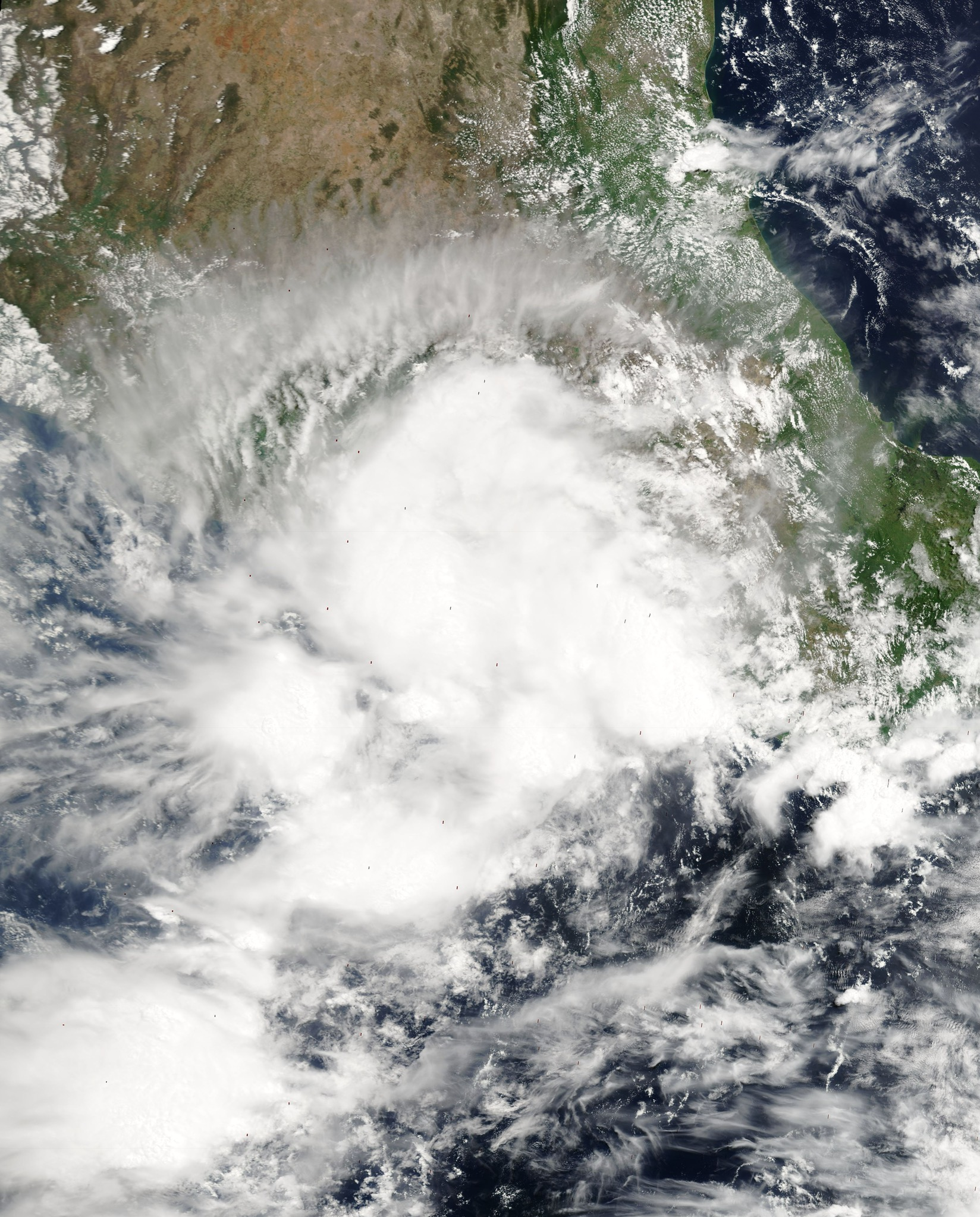 This image shows Tropical Storm Dora off of southern Mexico at 1655 UTC on July 4, 2005. The storm's maximum sustained winds were about 45 mph (75 km/h).